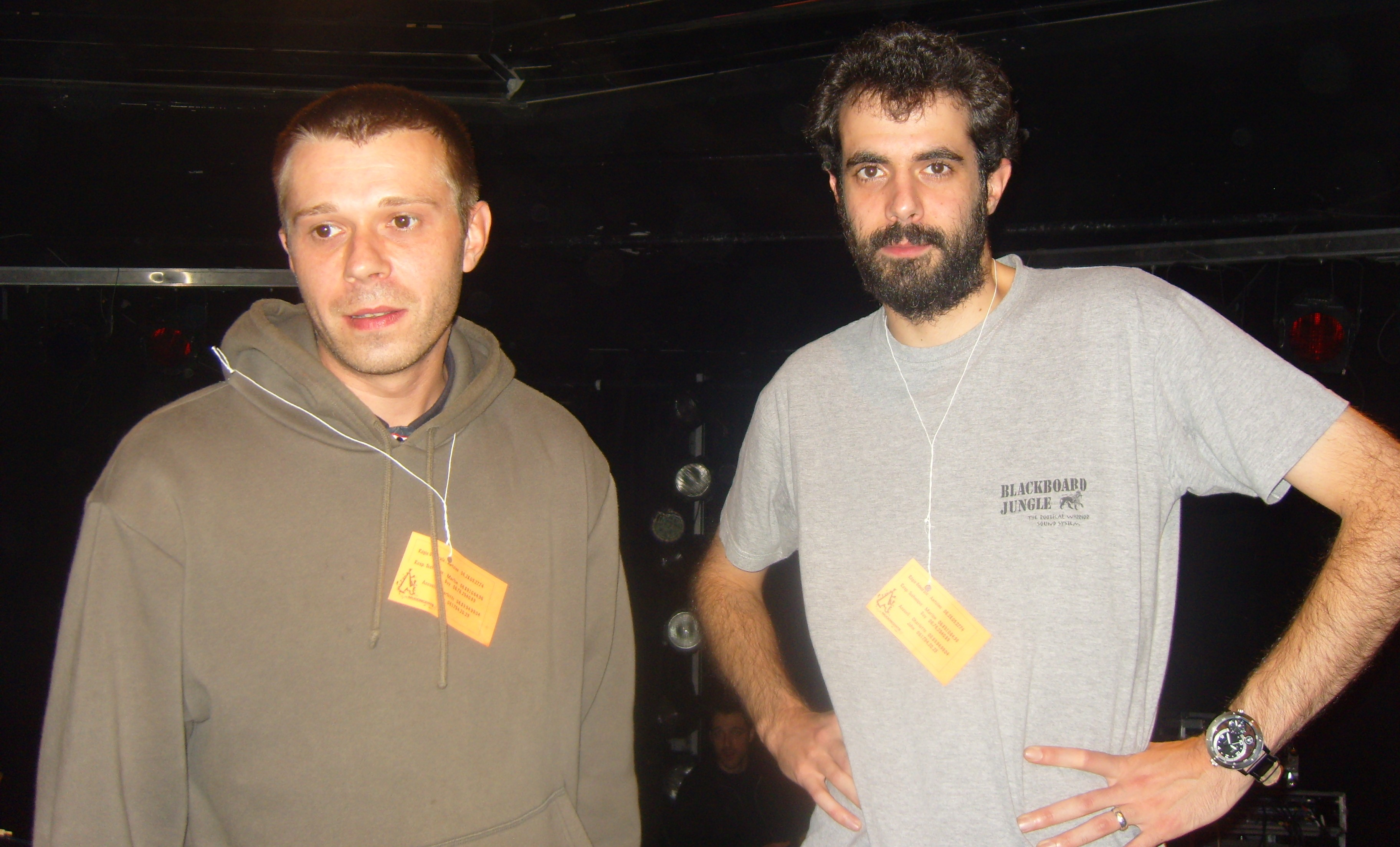 Kanka with bassist Chris B before a show